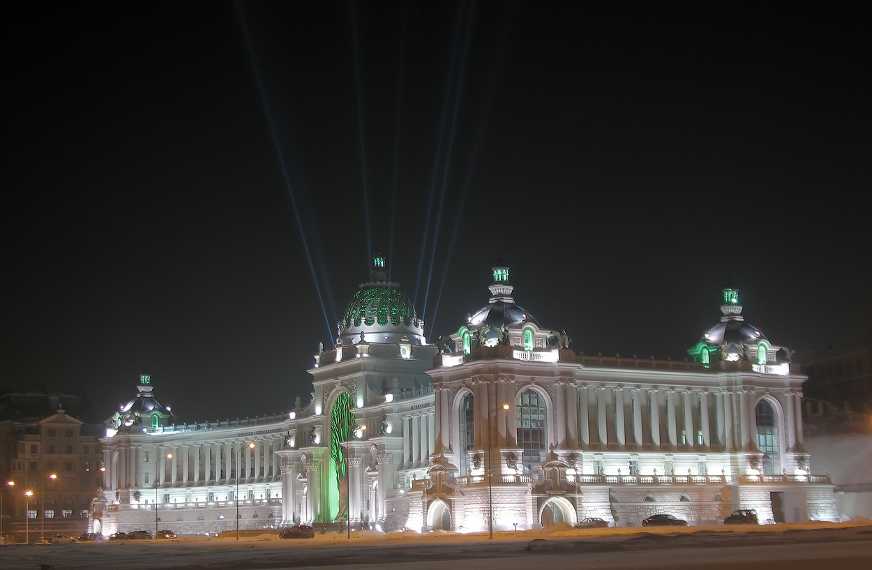 Agriculturers palace on Palace square in Kazan at night